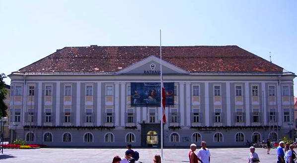 Das Rathaus in Klagenfurt - The townhall of Klagenfurt 13:44, 4. Sep 2004 Joooo 598 x 329 (32809 Byte)